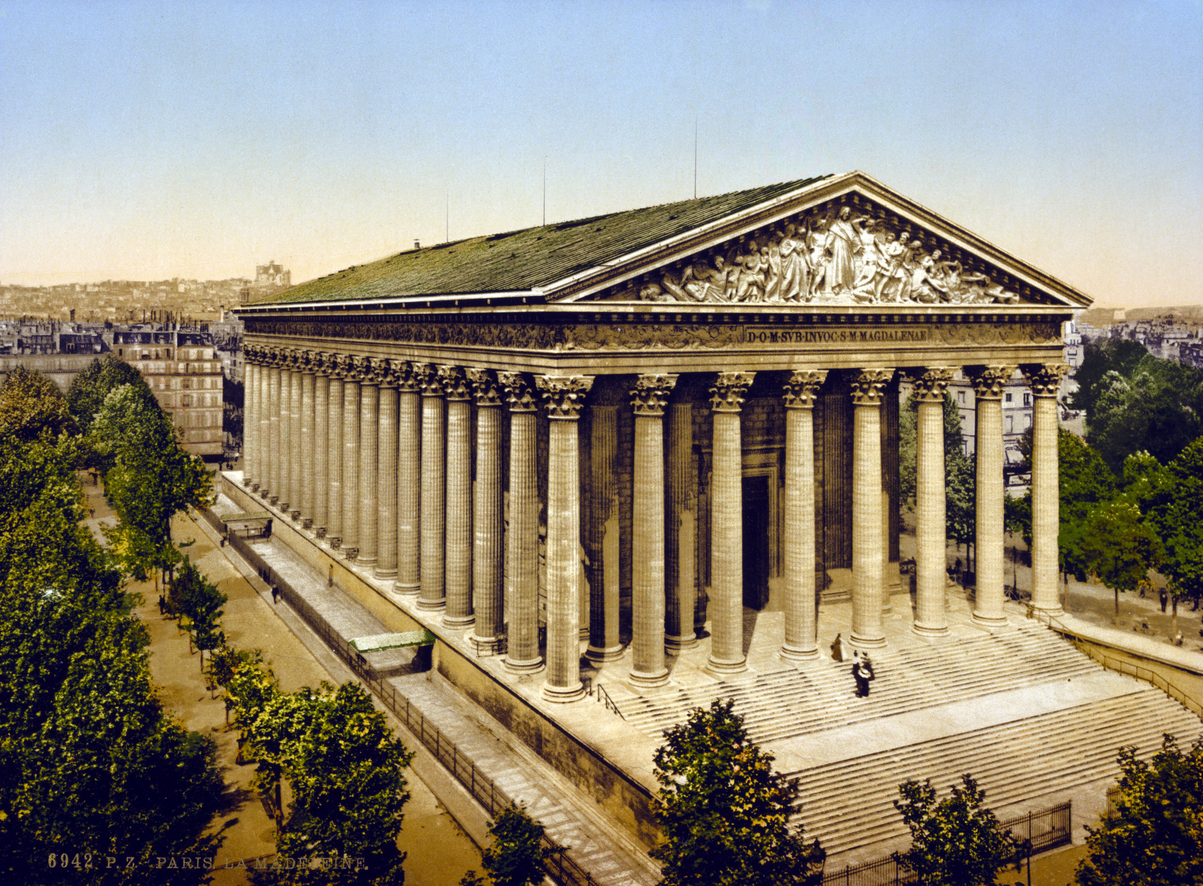 The Madeleine, Paris, France.